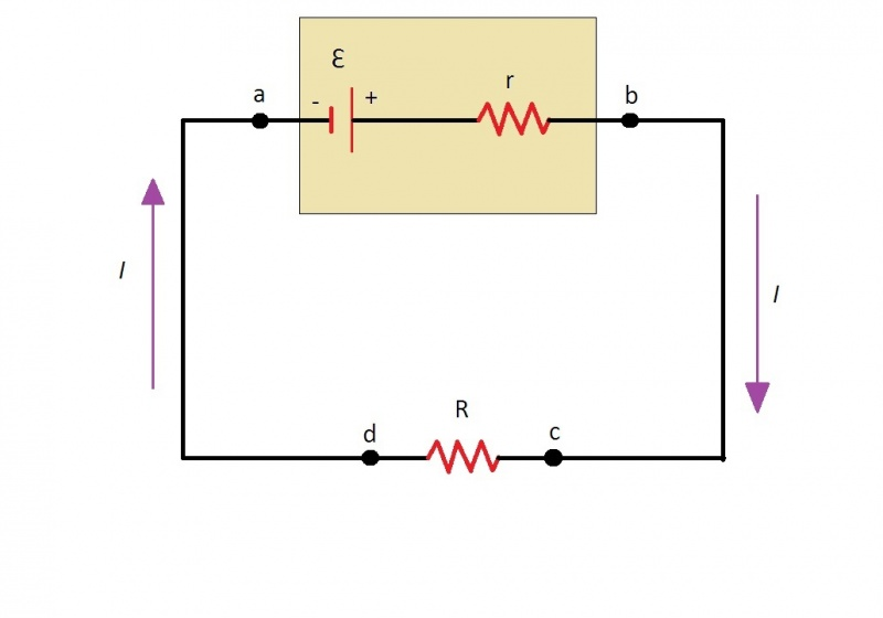 Circuito con resistencia interna de batería